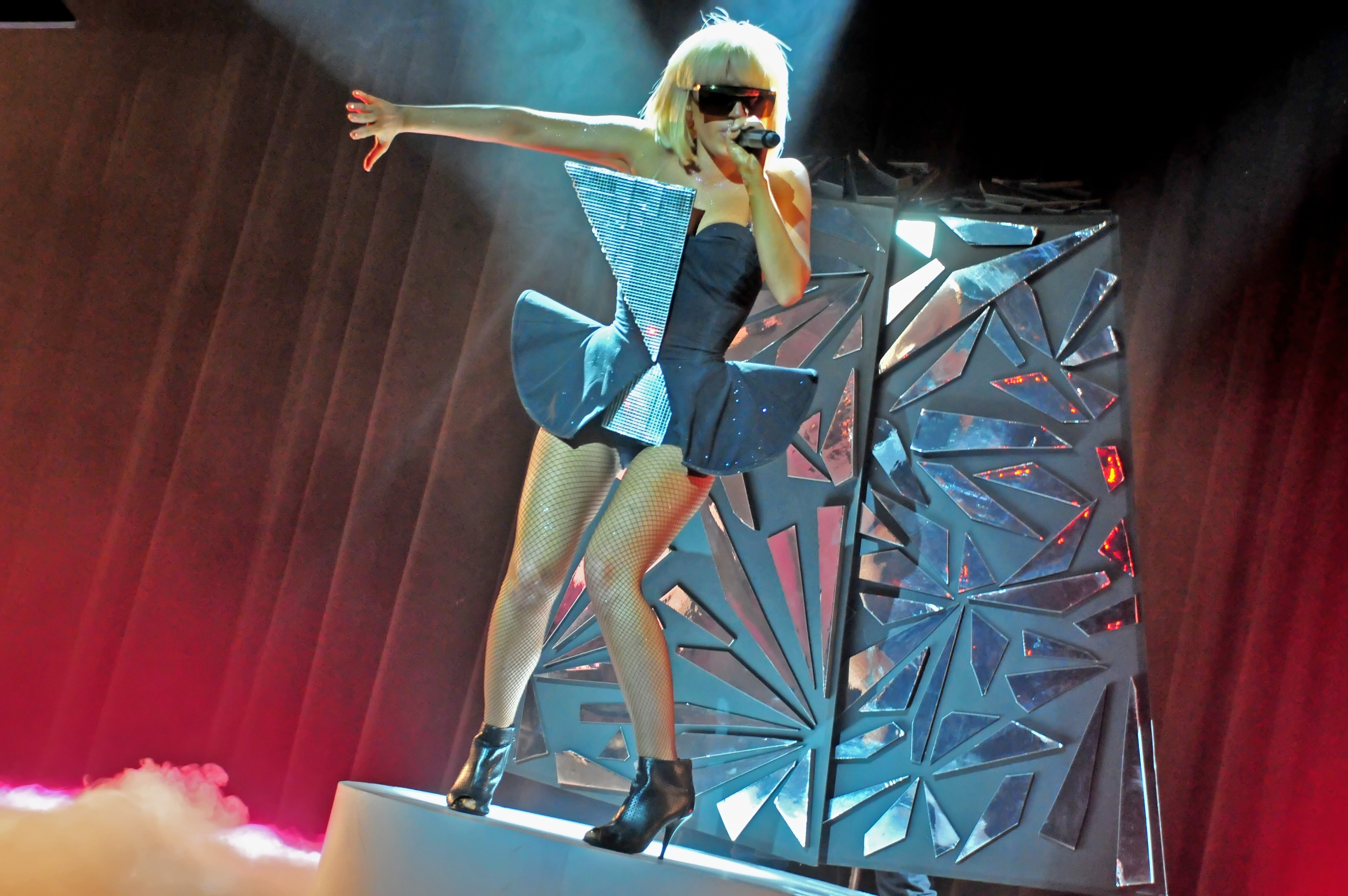 Lady Gaga performing "Paparazzi" on The Fame Ball Tour